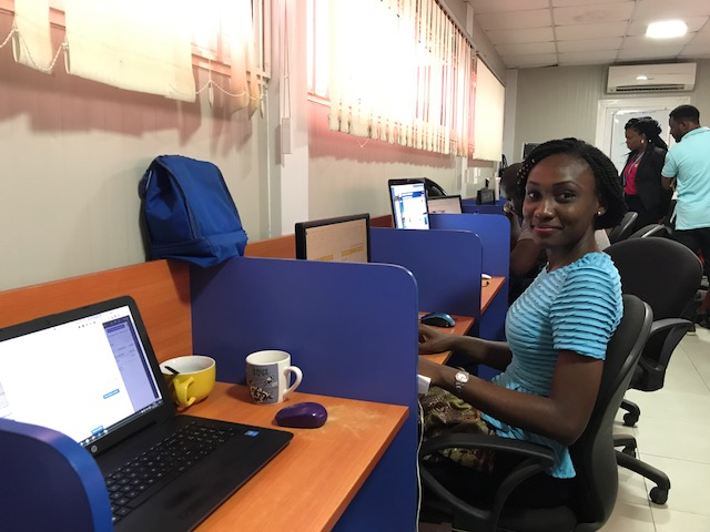 A staff of a leading Nigerian tech company at her work station This is an image of "African people at work" from Nigeria